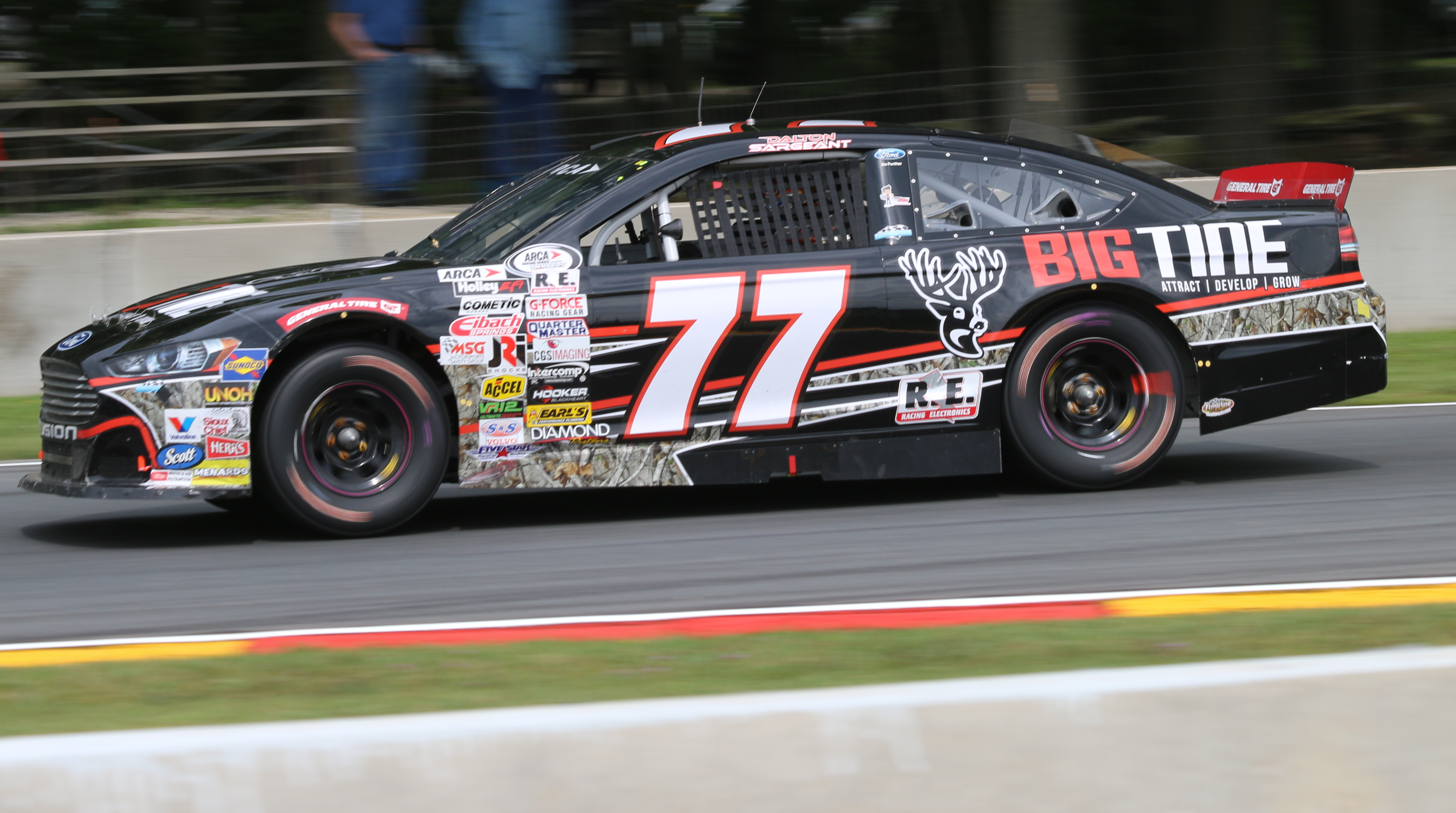 The ARCA Racing Series car of Dalton Sargent at the 2017 Road America 100 race.